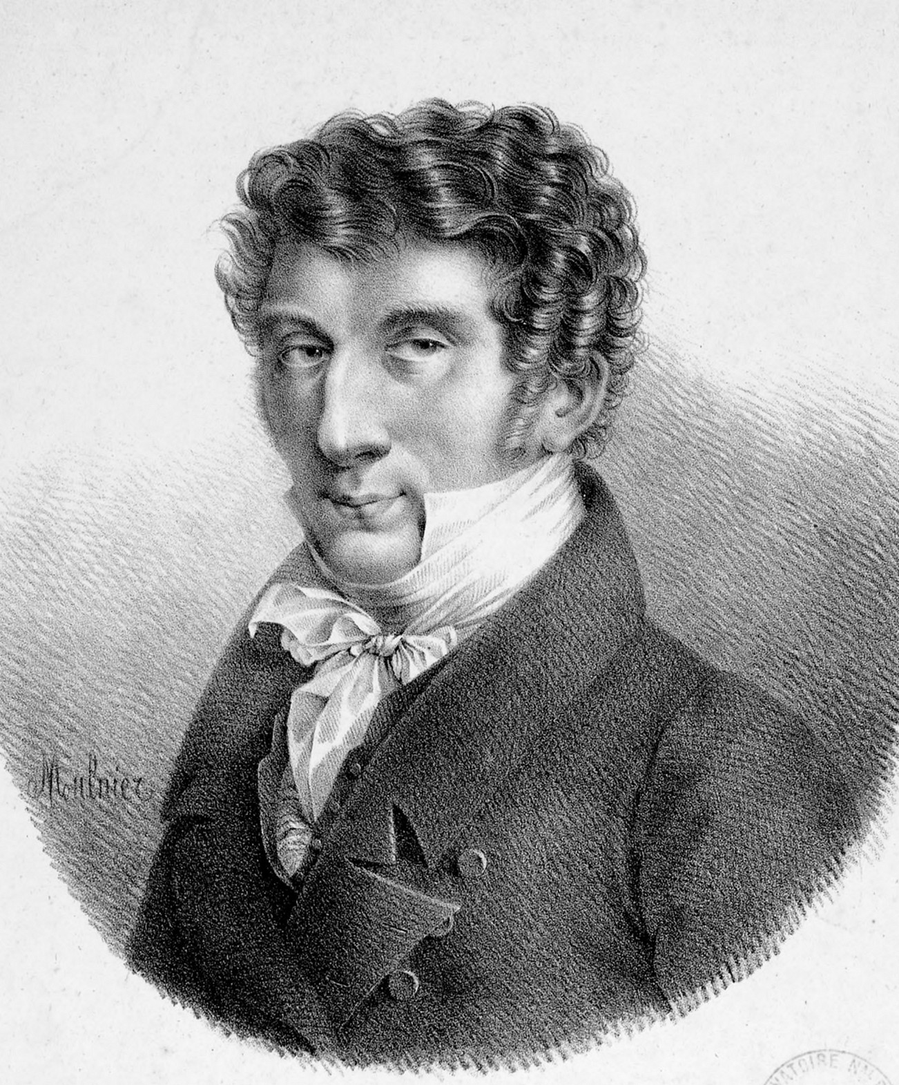 French flutist and composer Louis Drouet (1792-1873) by Nelson Mulnier (18?-18?).